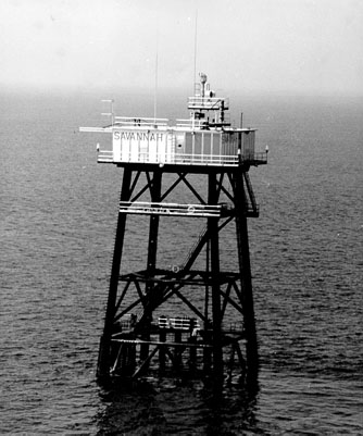 Savannah Light (Georgia, US State) This image or file is a work of a United States Coast Guard service personnel or employee, taken or made as part of that person's official duties. As a work of the U.S. federal government, the image or file is in the public domain (17 U.S.C. § 101 and § 105, USCG main privacy policy and specific privacy policy for its imagery server).